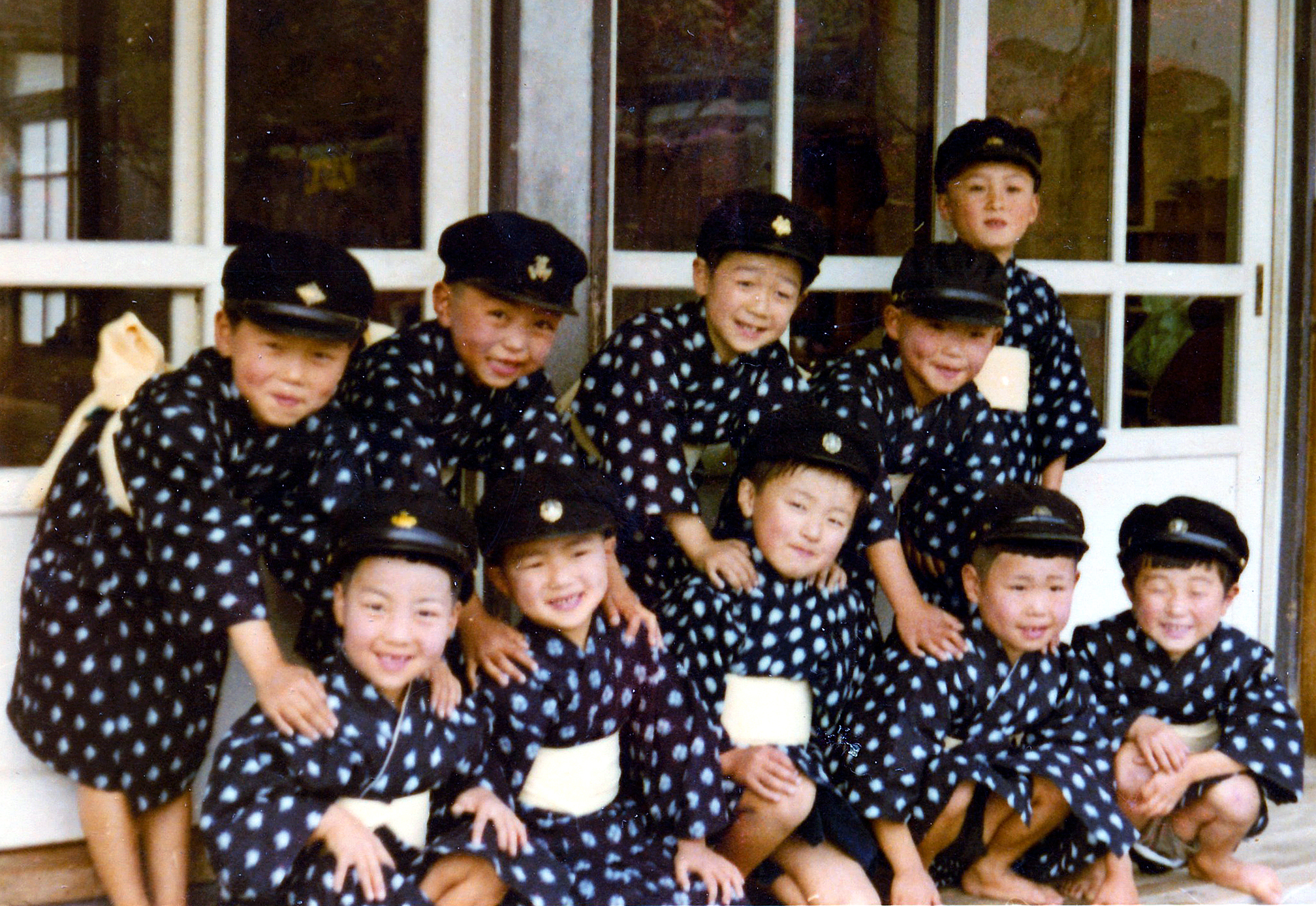 Children in Kimono, circa 1960s. In Ishinomaki, Miyagi, Japan.